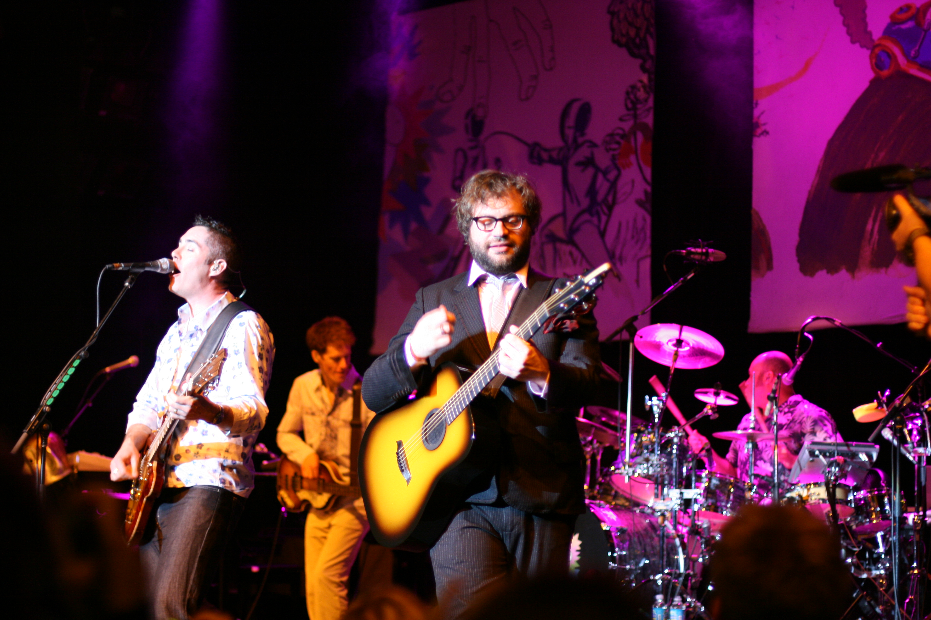 Ships and Dip III, Day 3